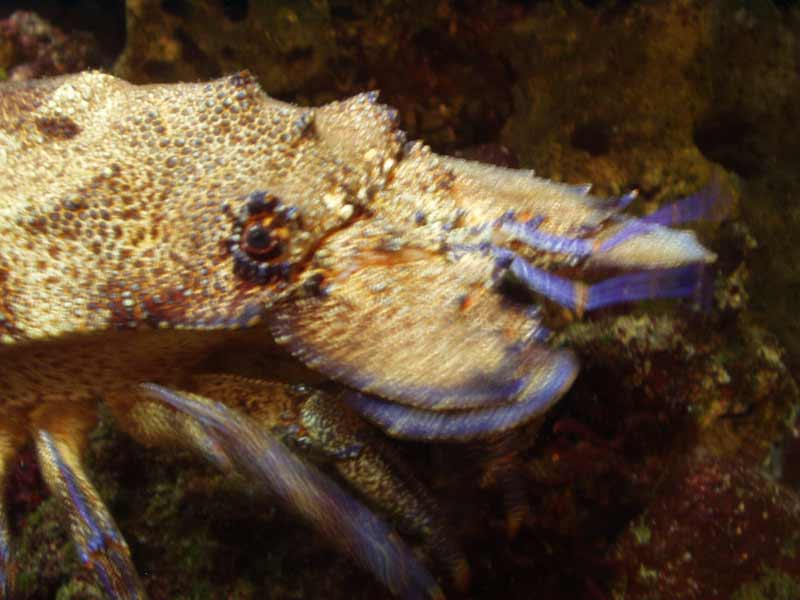 The head of the slipper lobster Scyllarides latus. Taken by Chris Dixon on the 27th of February 2005 at the Haus des Meeres, Vienna.